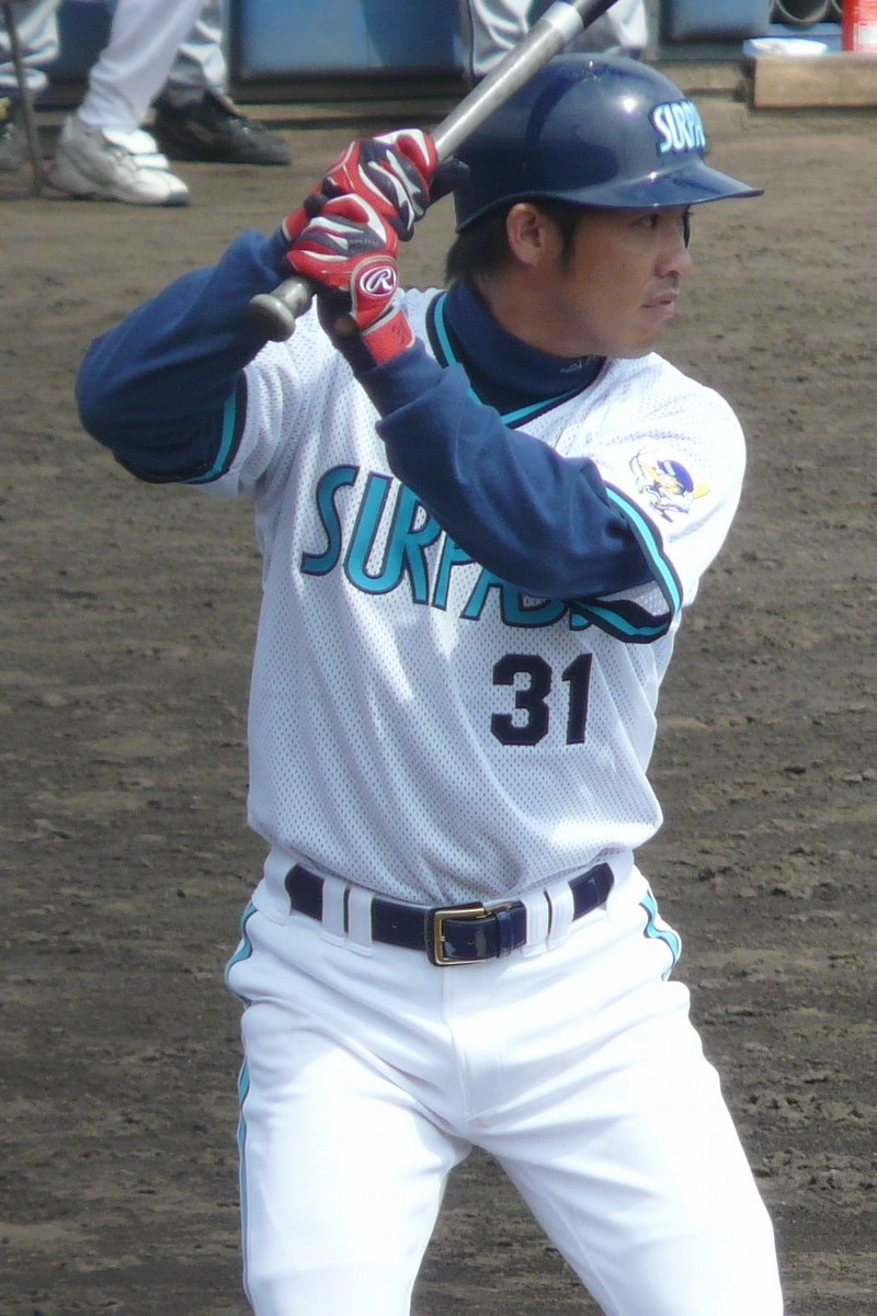 Makoto Shiozaki, infielder of the Surpass, at Maishima Baseball Stadium.